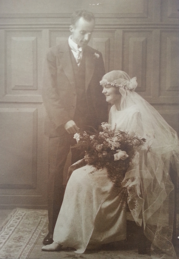 A photograph of Eric and Bergit on the day of their marriage.